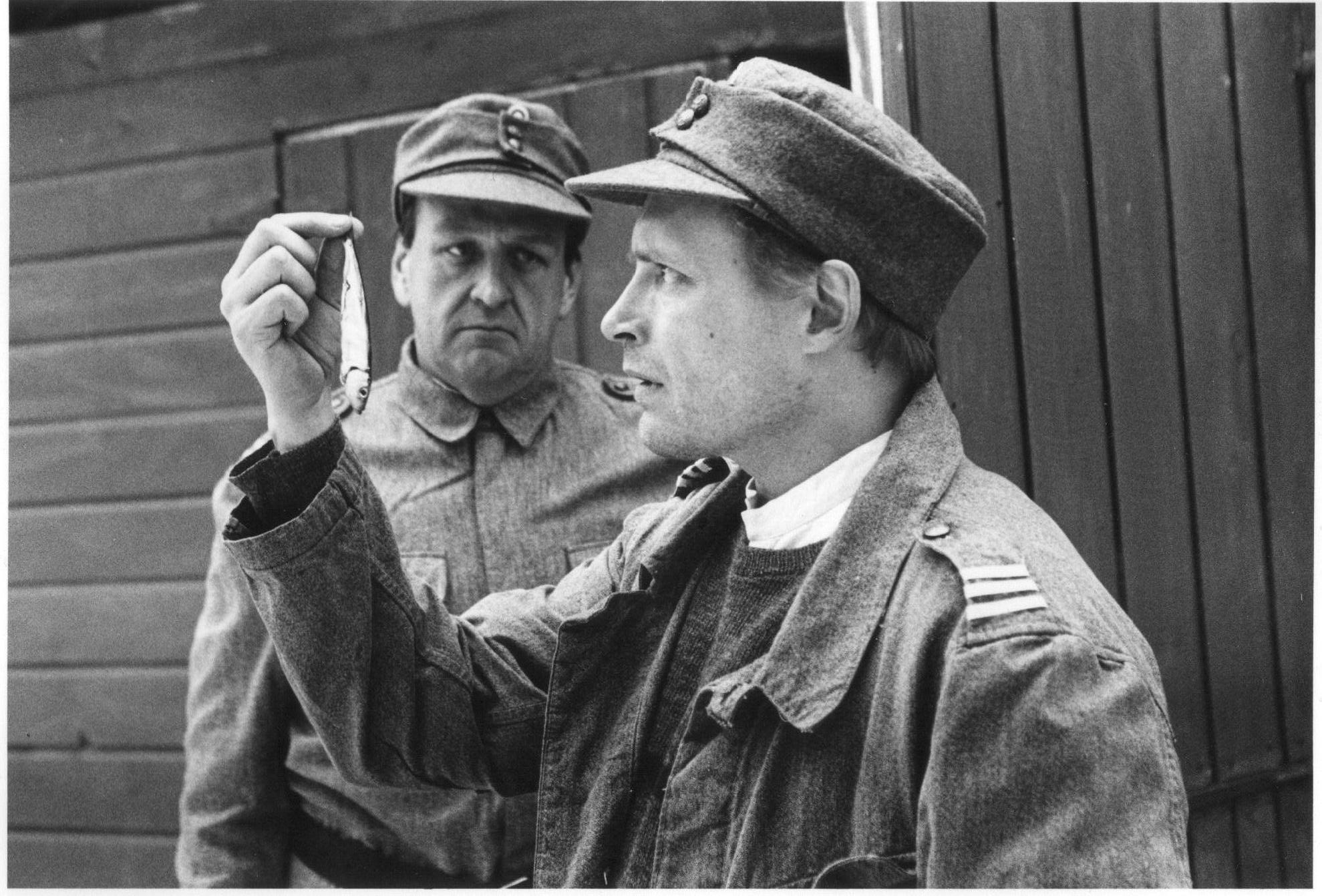 Mikko Kivinen and Ilkka Heiskanen in Tuntematon sotilas (The Unknown Soldier), Pyynikki Summer Theatre / Pyynikin kesäteatteri, 1997